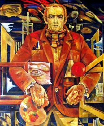 Self portrait.